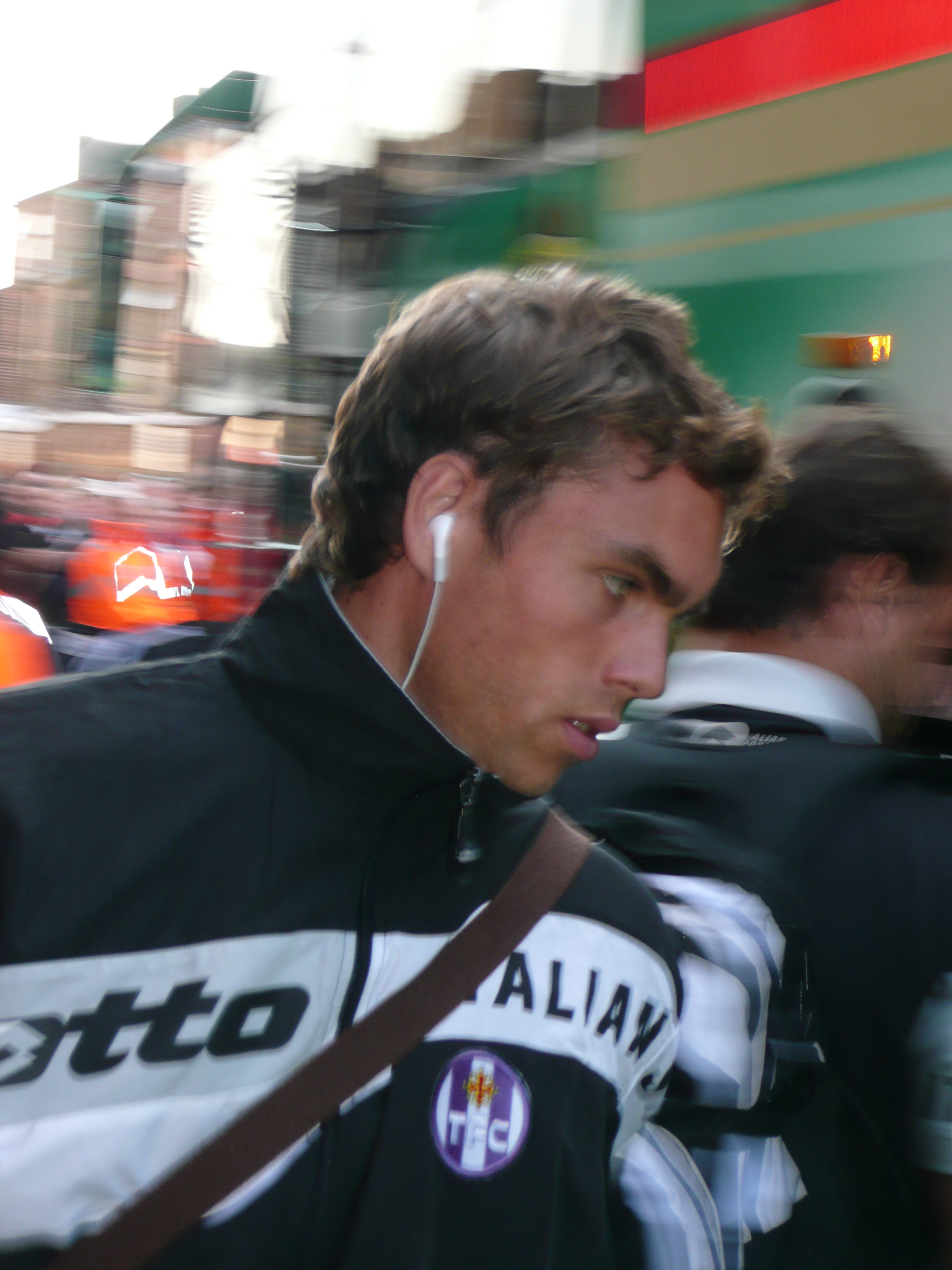 Johan Elmander, swedish international soccer player of Toulouse FC.